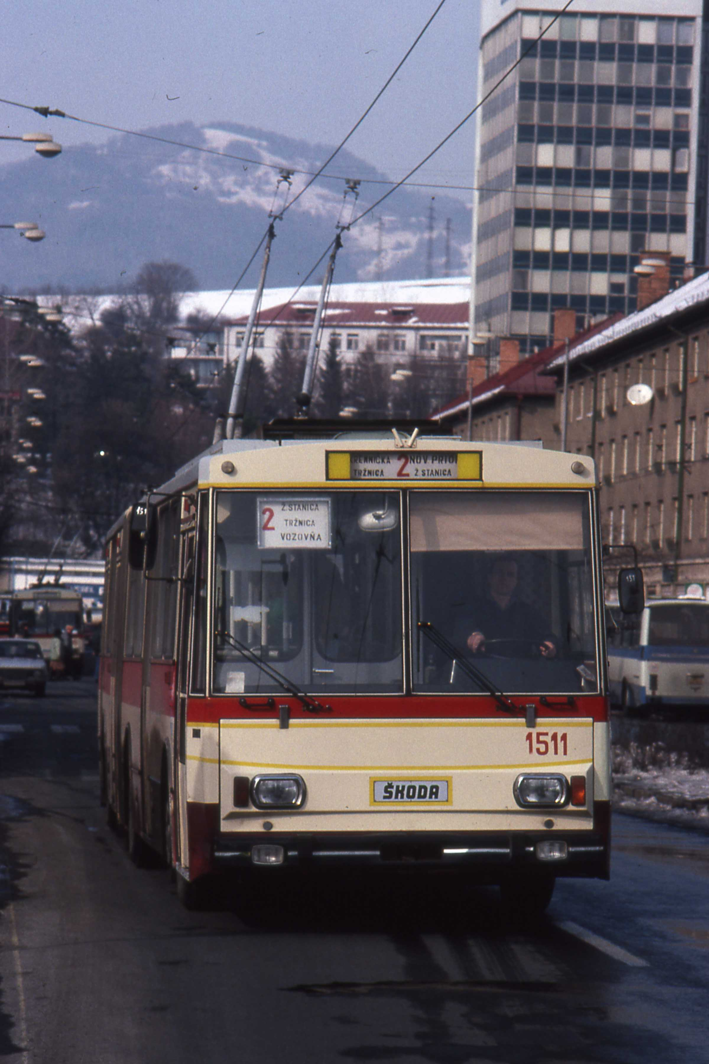 Škoda 15Tr trolleybus in Banská Bystrica, Slovakia